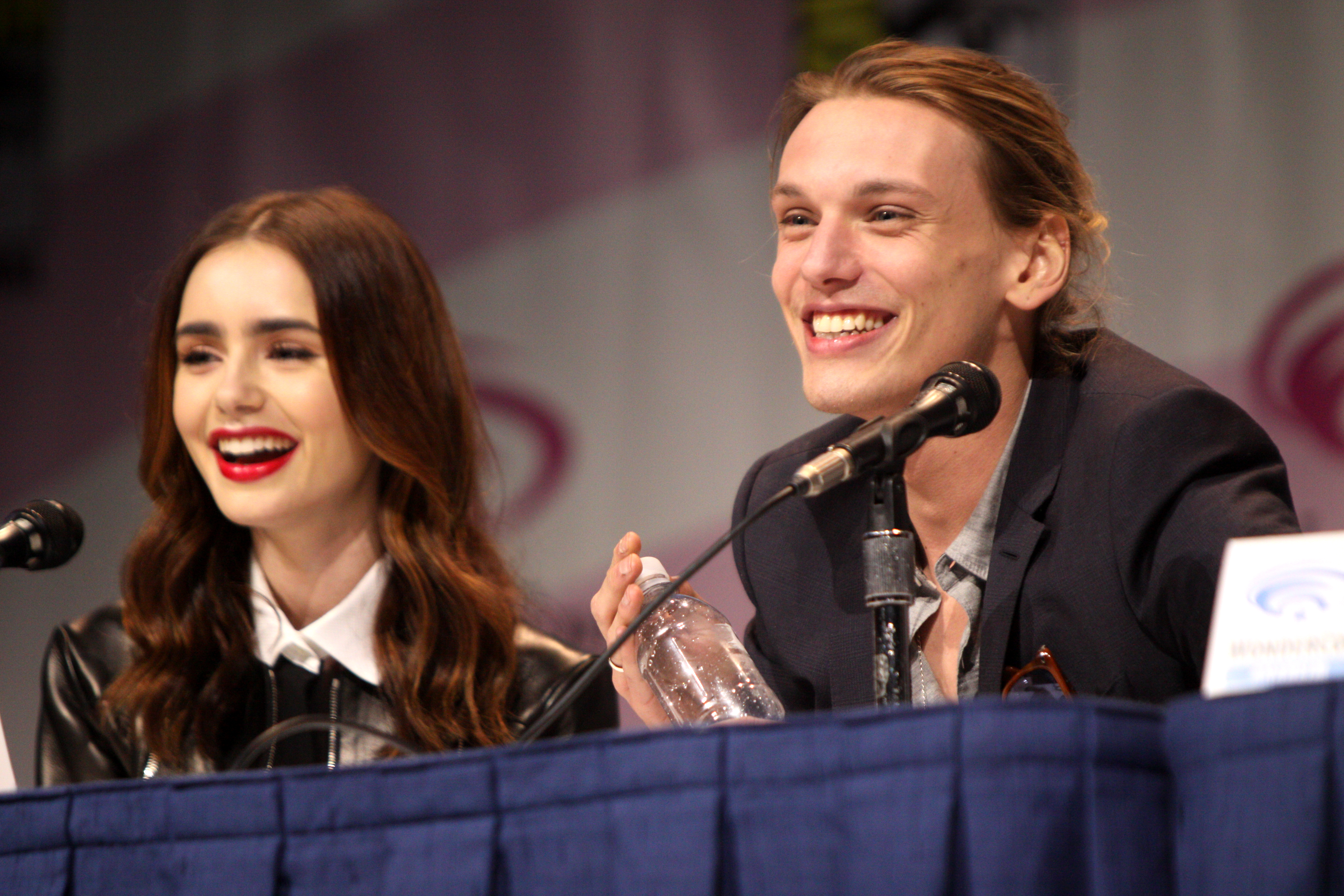 Jamie Campbell Bower and Lily Collins speaking at the 2013 WonderCon at the Anaheim Convention Center in Anaheim, California.